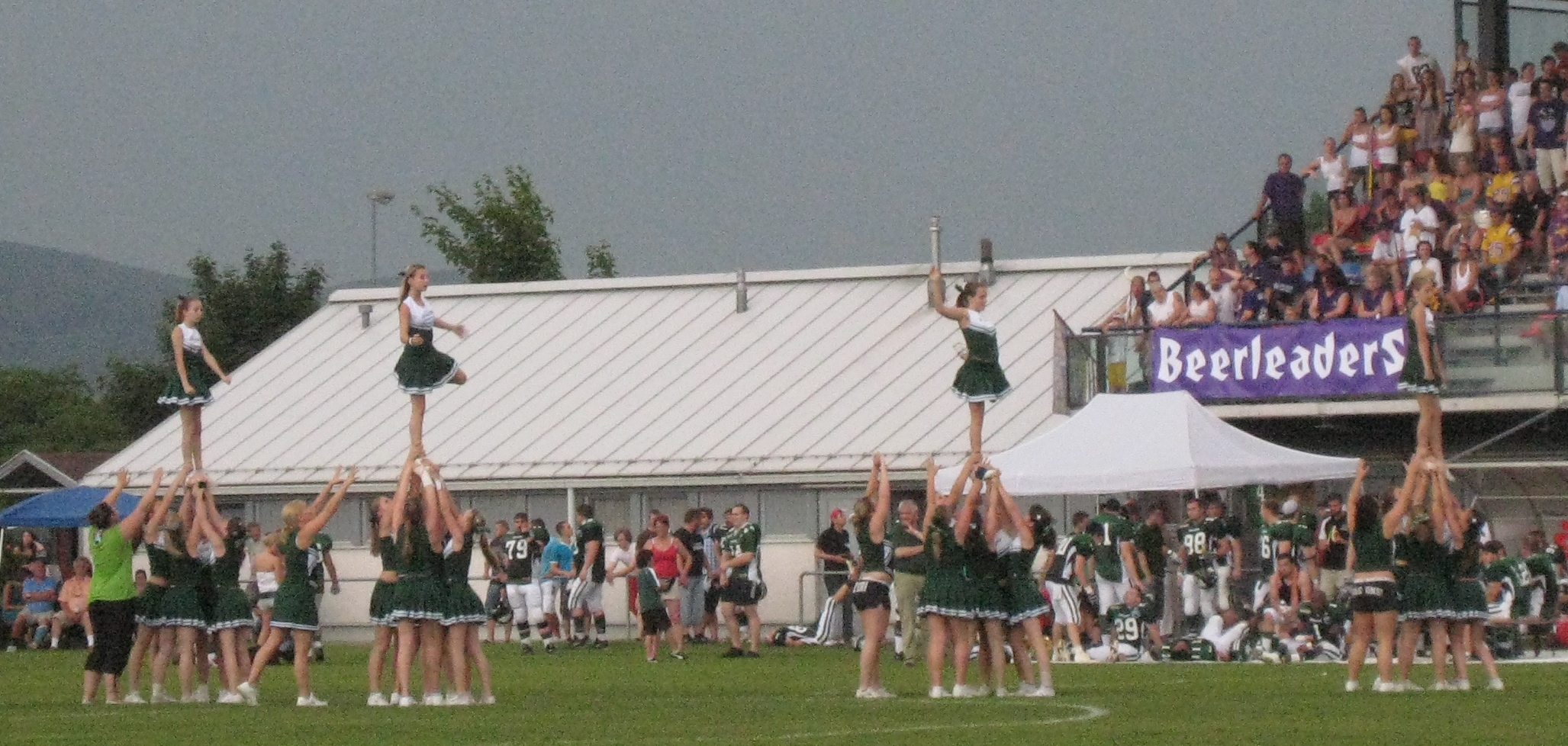 Austrian Football League regular season game @Danube Dragons vs. Raiffeisen Vikings Vienna, Korneuburg, Rattenfängerstadium